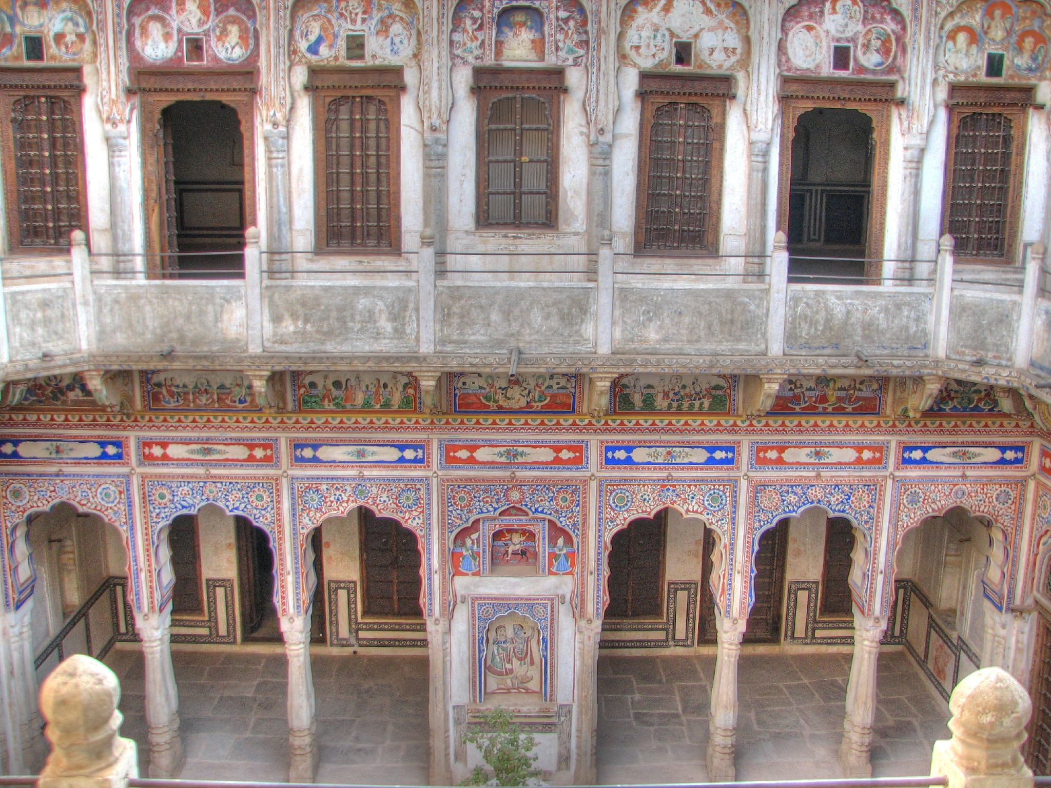 Painted Havelis 14 HDR